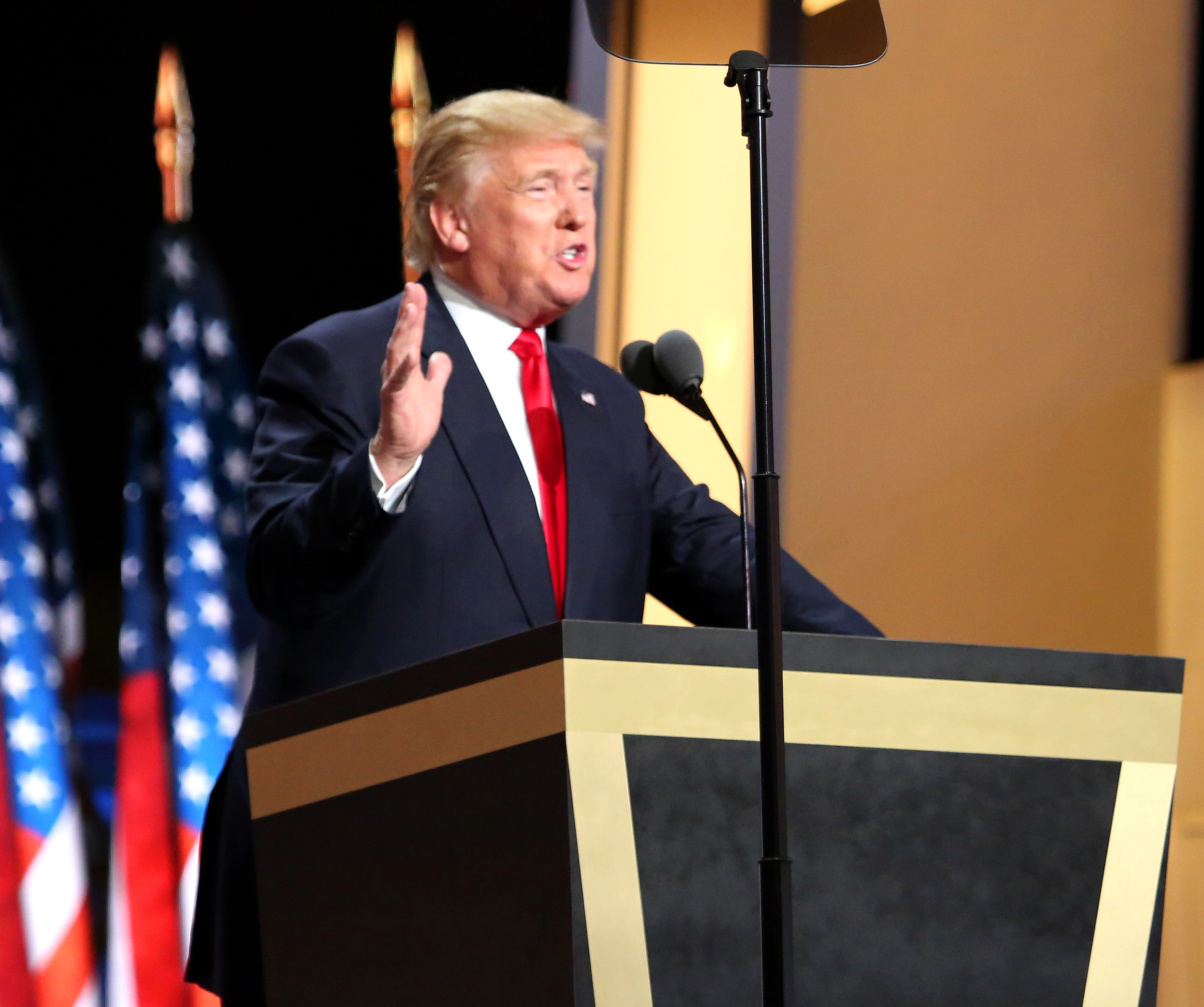 Trump promised to bring sweeping political change, to create wealth, and to make America safe again in a speech that excited delegates on the fourth and final day of the convention. (A. Shaker/VOA)